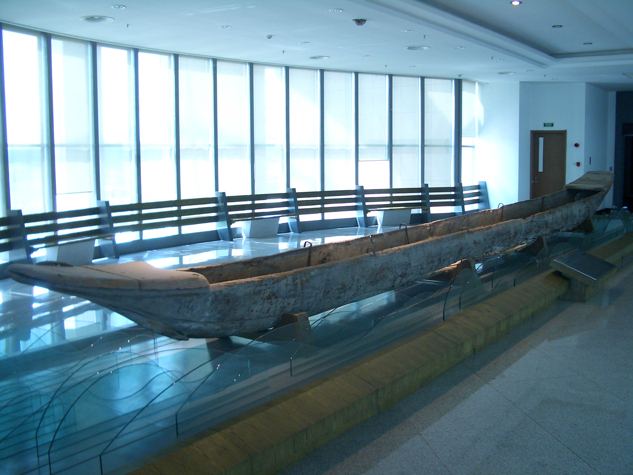 A Tang Dyansty dragon boat exhibited in Yangzhou Museum. It was unearthed on 1960-03-03 in a branch of the Yangtze River in Shiqiao Township, Hanjiang County (now, Disrict) of Yangzhou. The boat is made of a single treel it is 13.65 m long, 0.75 m wide, an 0.56 m in depth.